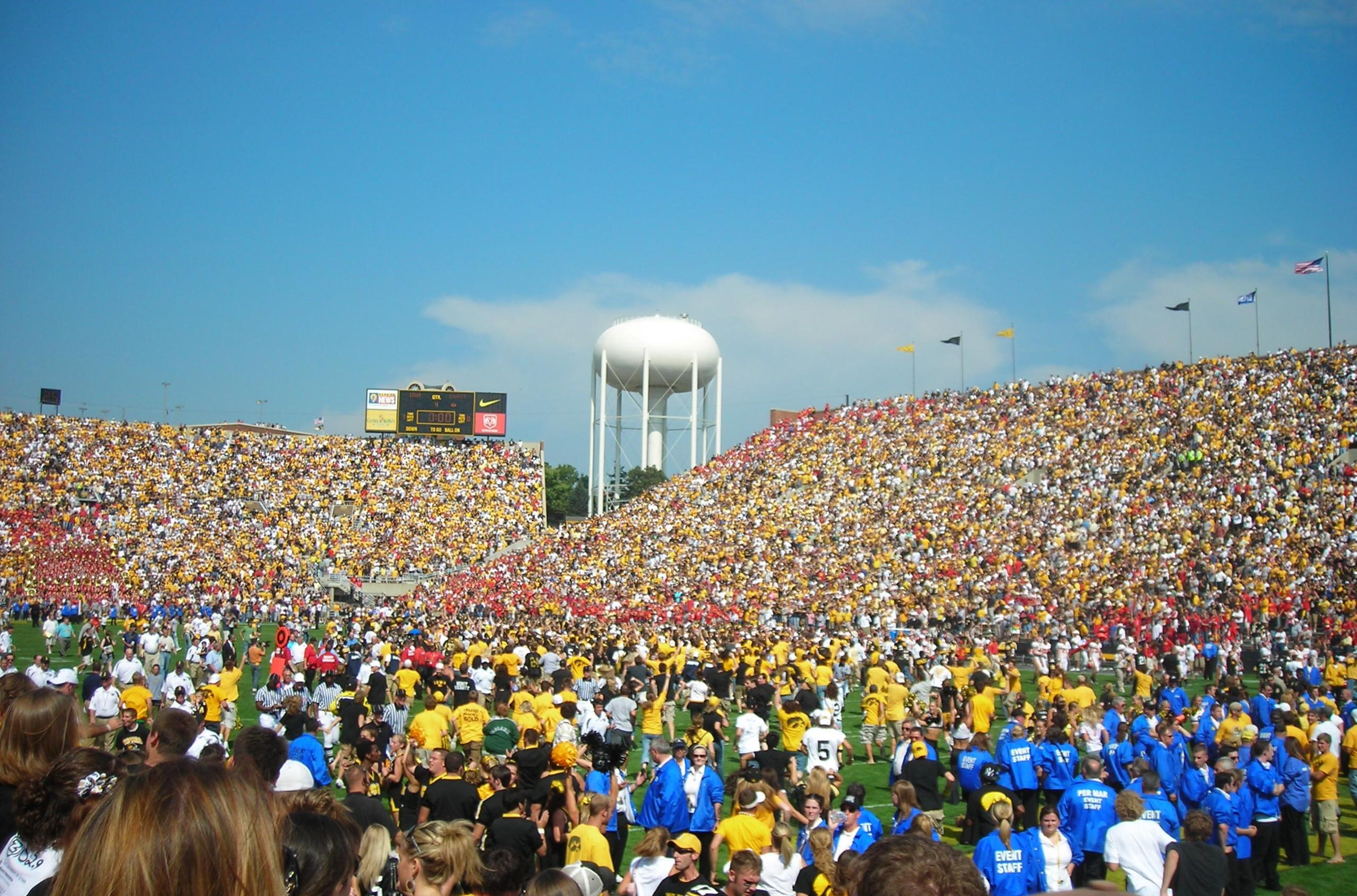 Students rushing renovated Kinnick Stadium following the Iowa-Iowa State game, September 16, 2006.